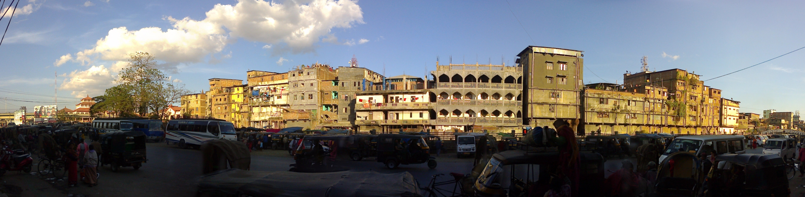 Imphal